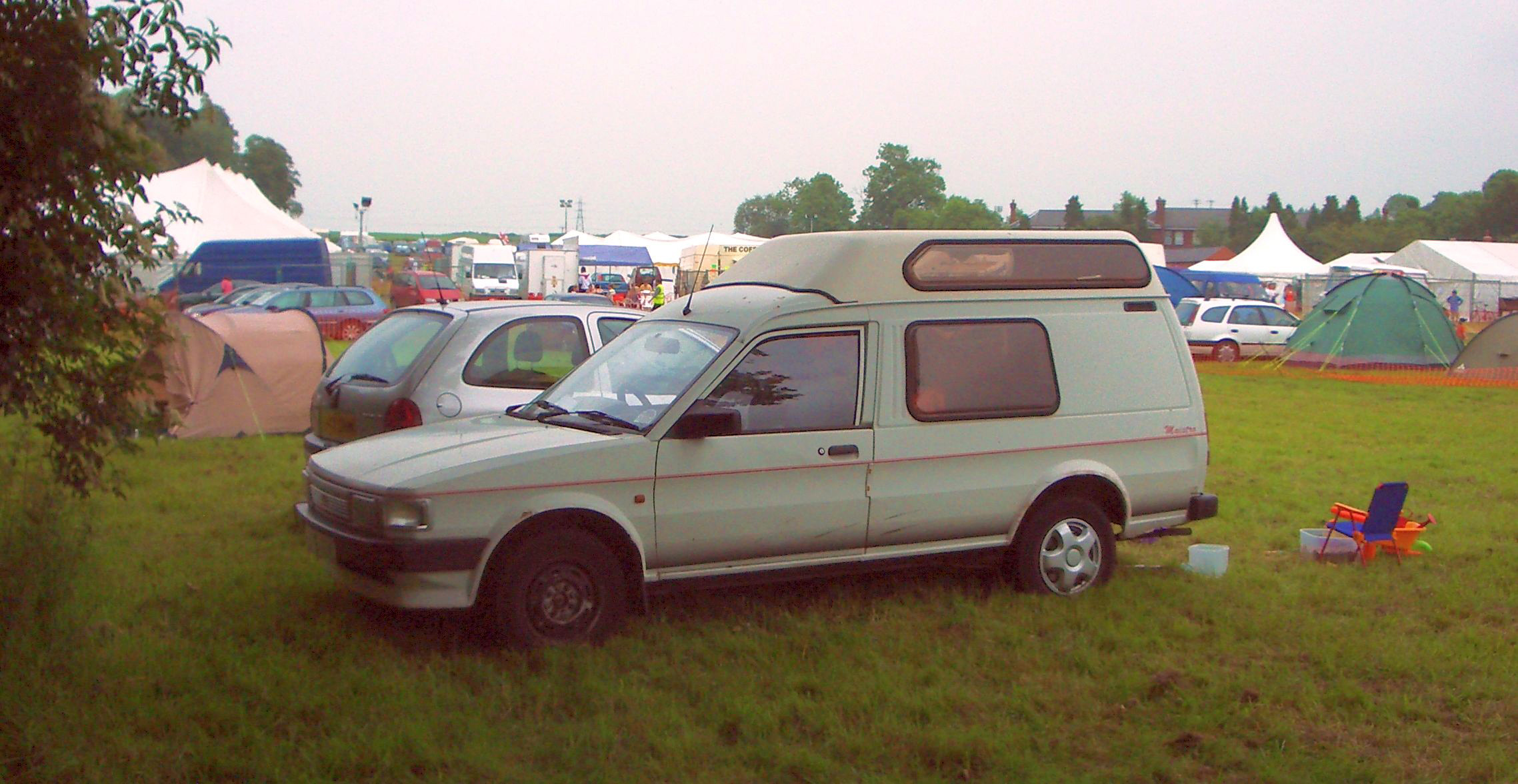 Austin Maestro car - campervan conversion. Front view.